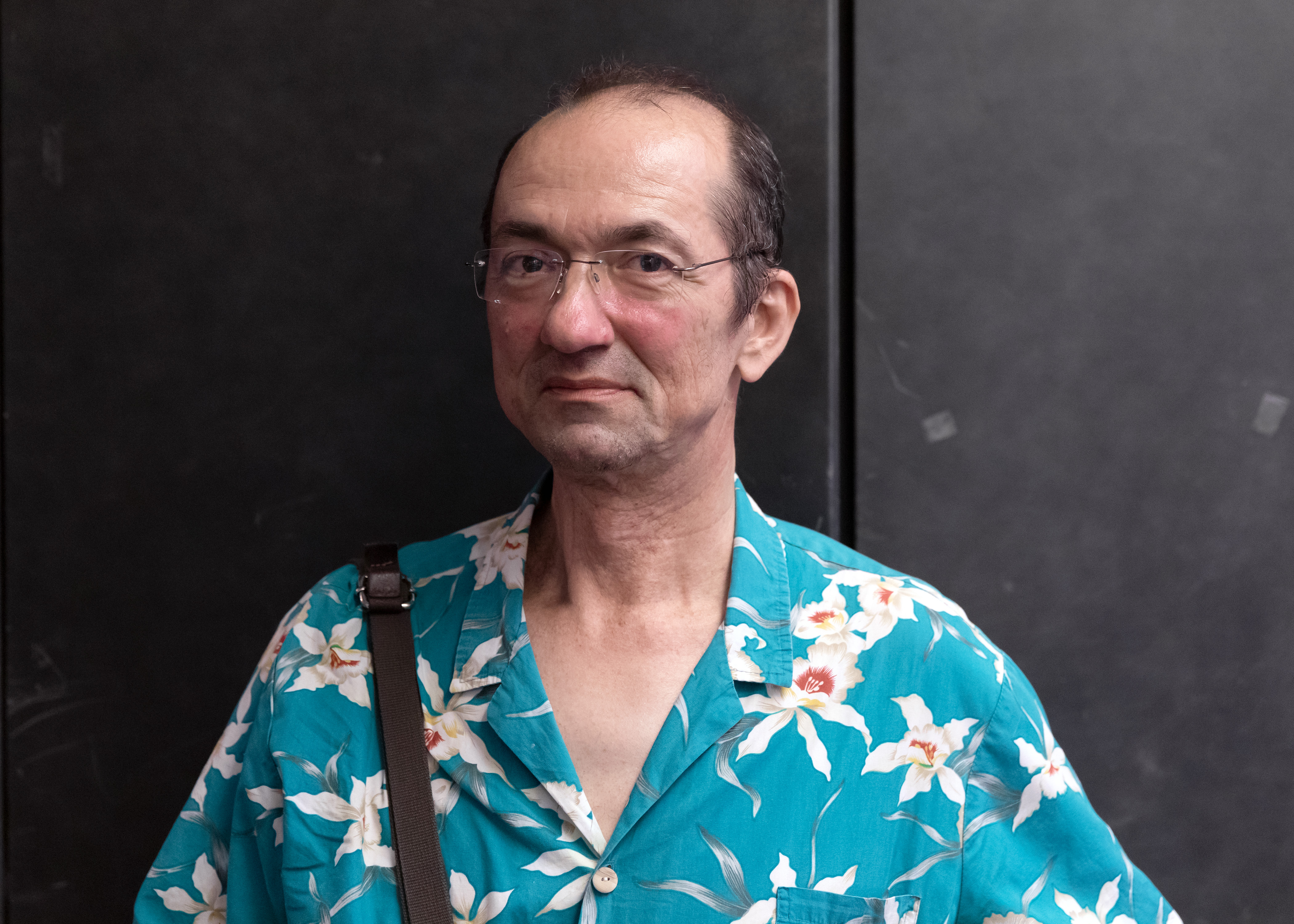 Thomas Renoldner at the short film festival Vienna Shorts 2018, Metro-Kinokulturhaus in Vienna, Austria.